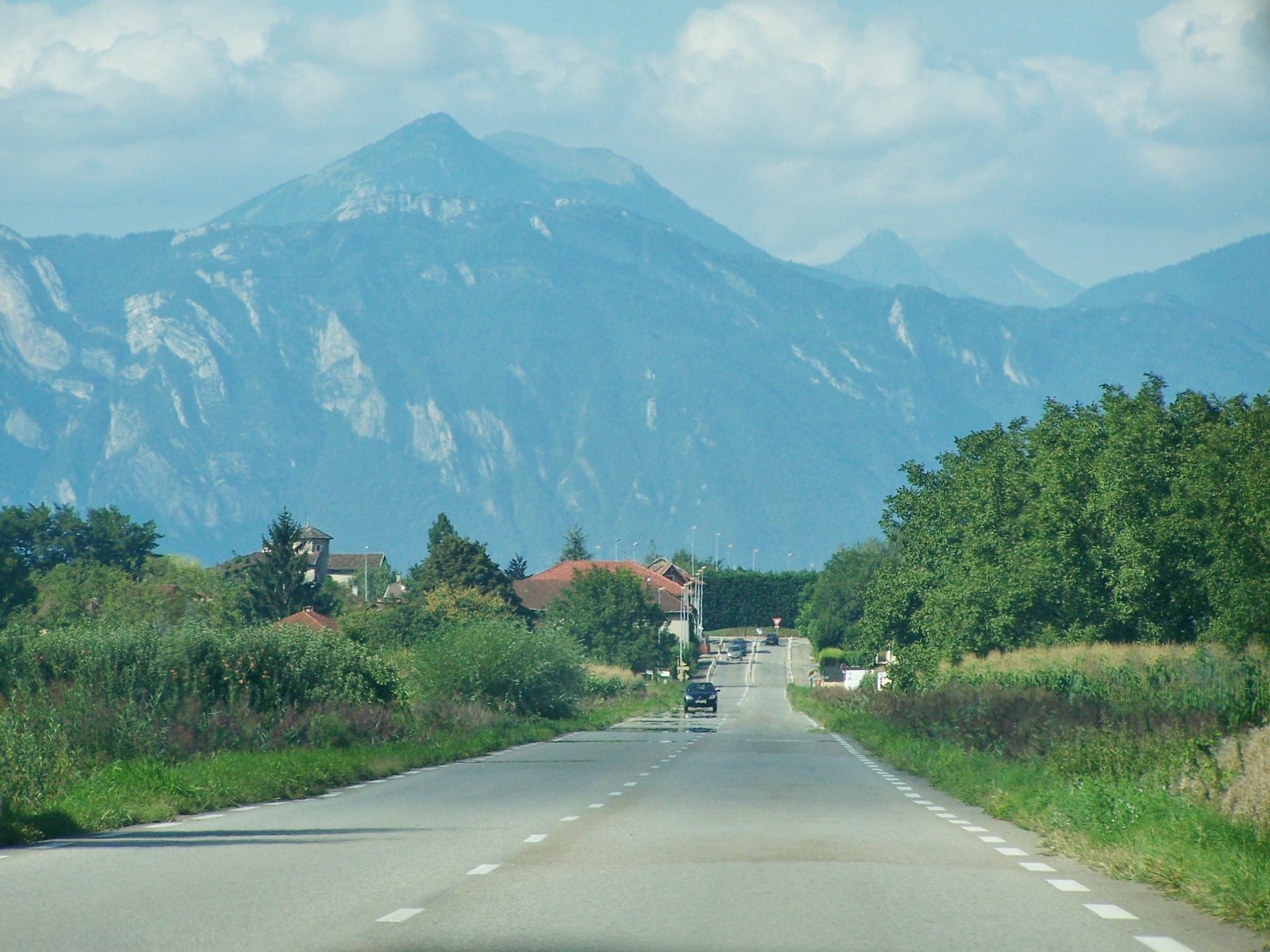 Sight of French RD 523 road entering into village of Le Cheylas in Isère. At the background can be seen the Bauges mountains in Savoie.